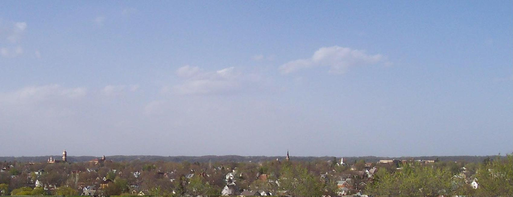 Picture taken by me in 2003